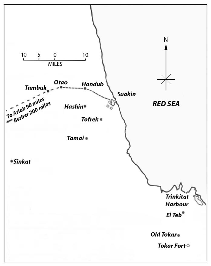 Map of Port Suakin and immediate hinterland.